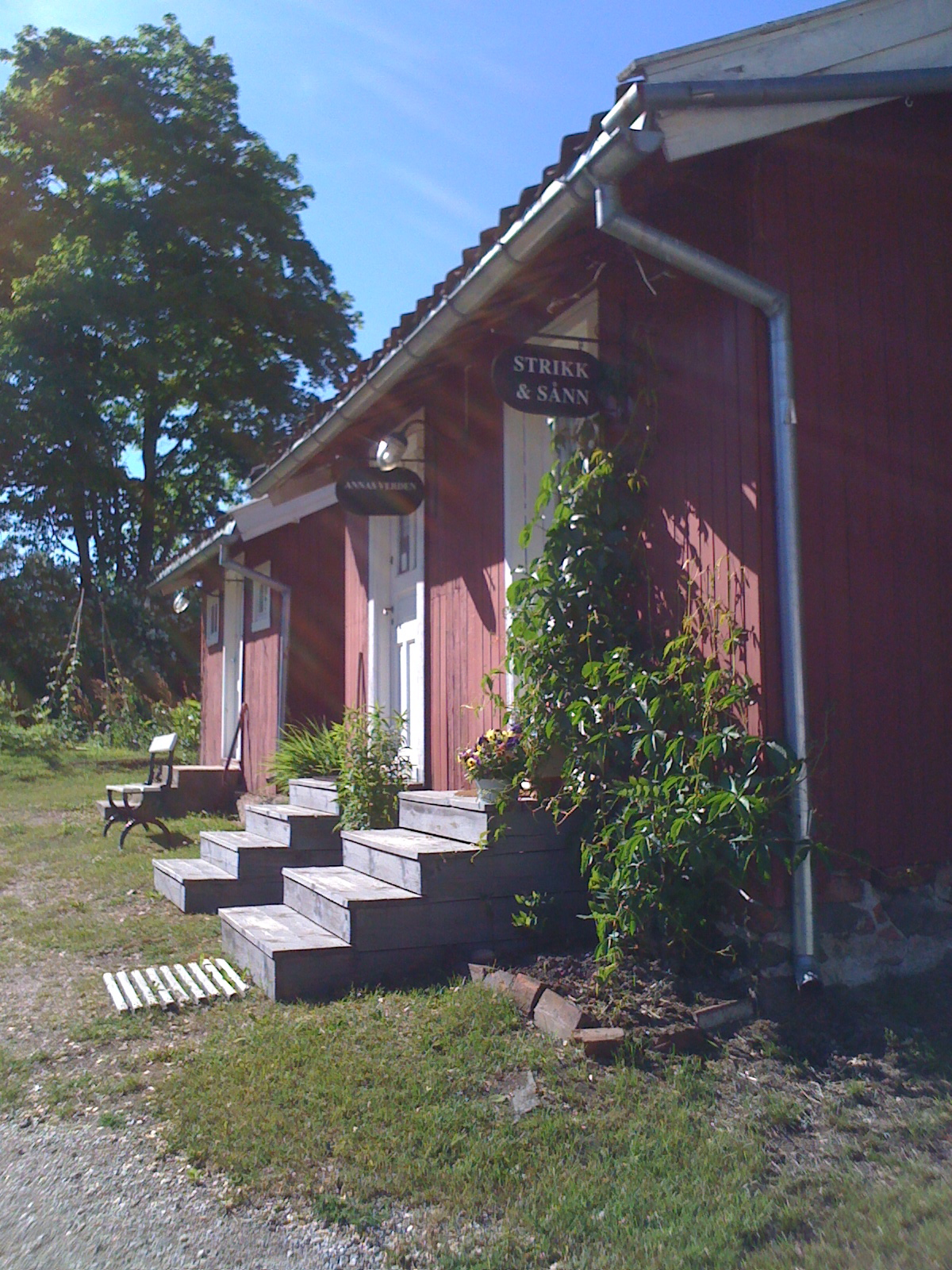 Ovre Verket, homes for workers from the factories of Ulefoss Ironworks.